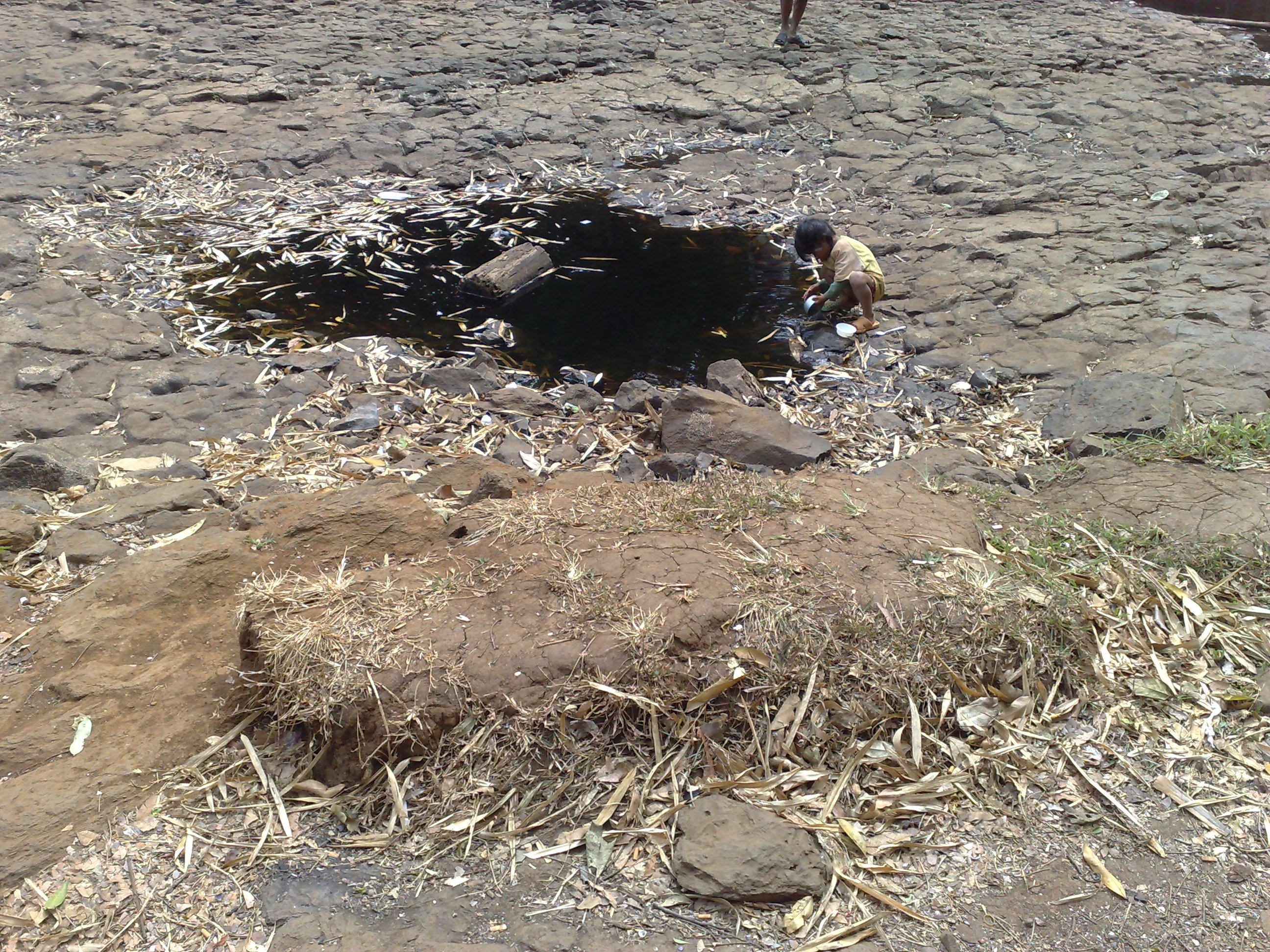 A little boy washes his cutlery in a dirty pool of water at Bou Sra Waterfall near Sen Monorom in the Mondulkiri province in Cambodia's east. Picture taken on 16 March 2011.